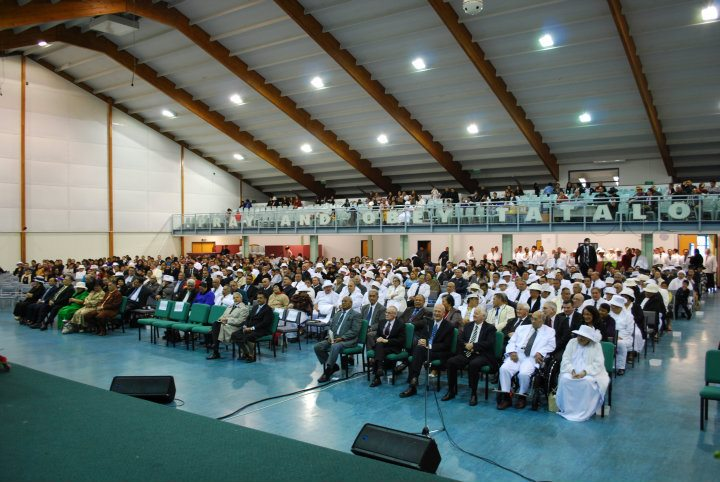 Church service at the Samoan Assembly of God church in Auckland, New Zealand.